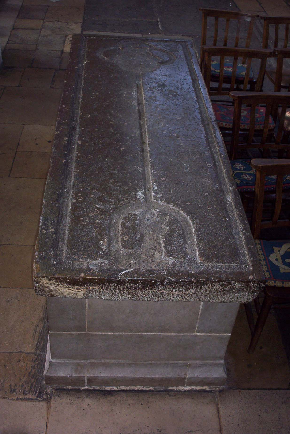 Photograph of Adam de Brome's tomb in the University Church of St Mary the Virgin, Oxford. Photo by me.--Alf melmac 14:32, 7 February 2007 (UTC)